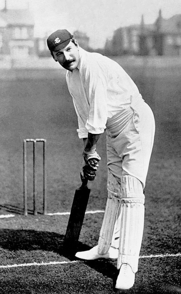 A scan of photo of cricketer, Walter Read